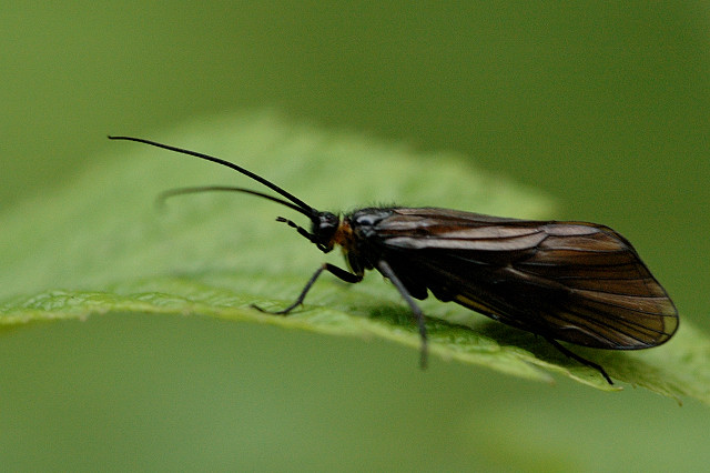 Picture taken in Commanster, Belgian High Ardennes . Species: Brachycentrus montanus - Misidentified: this is Oligotricha striata!